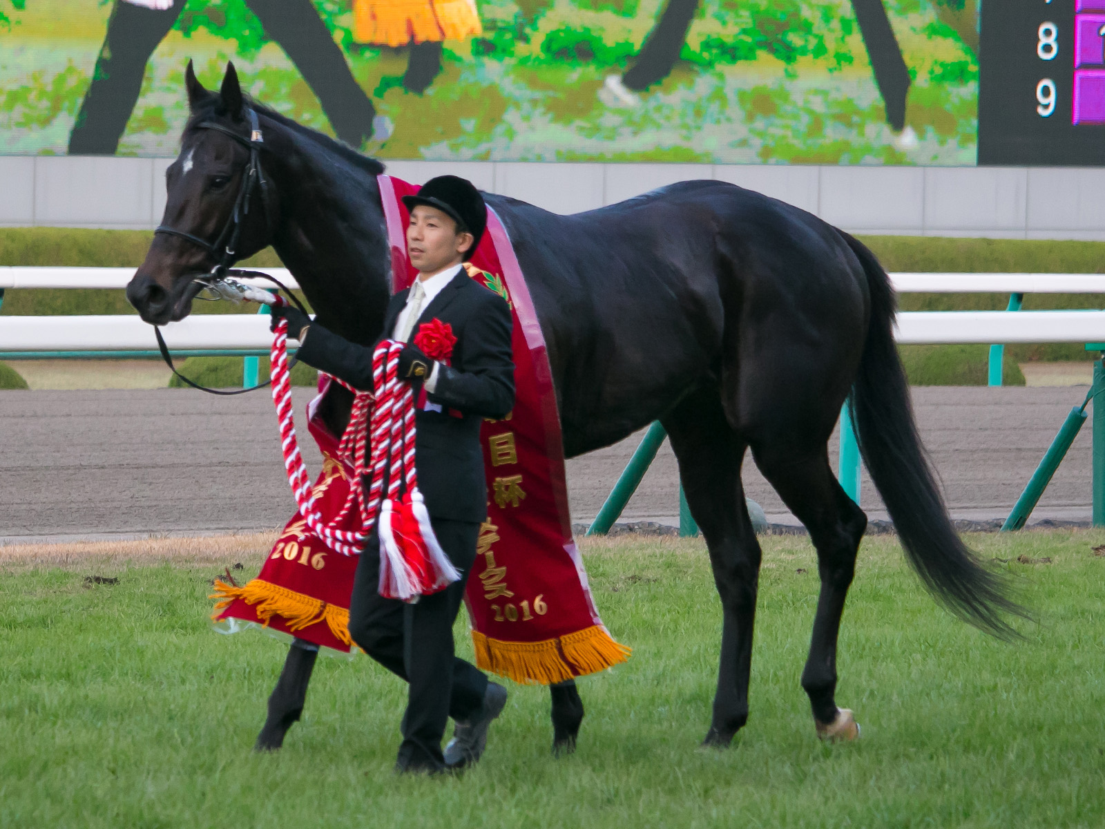 Satono Ares (Racehorse of Japan).